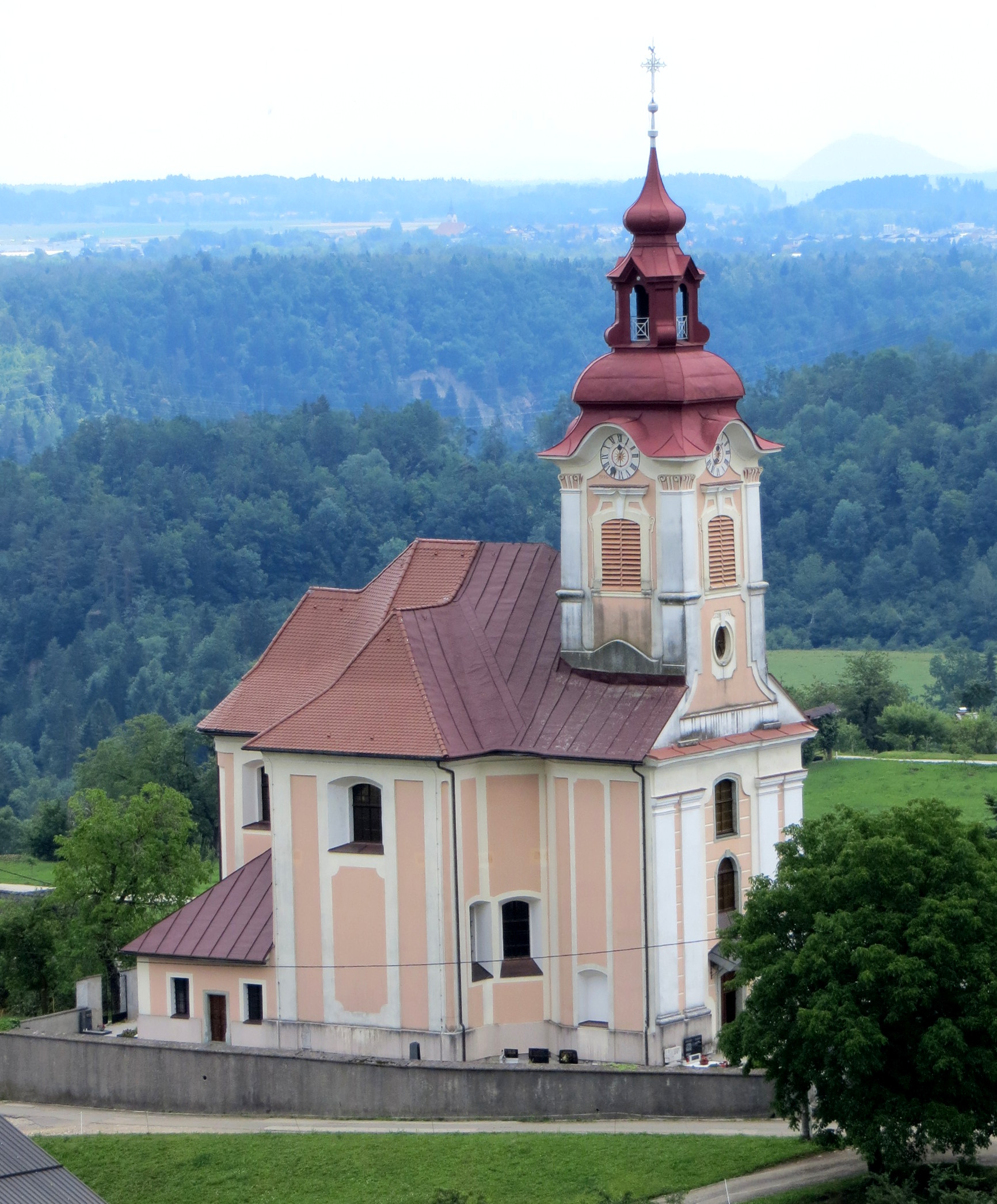 Saint John the Baptist Church in Zasip, Municipality of Bled, Slovenia